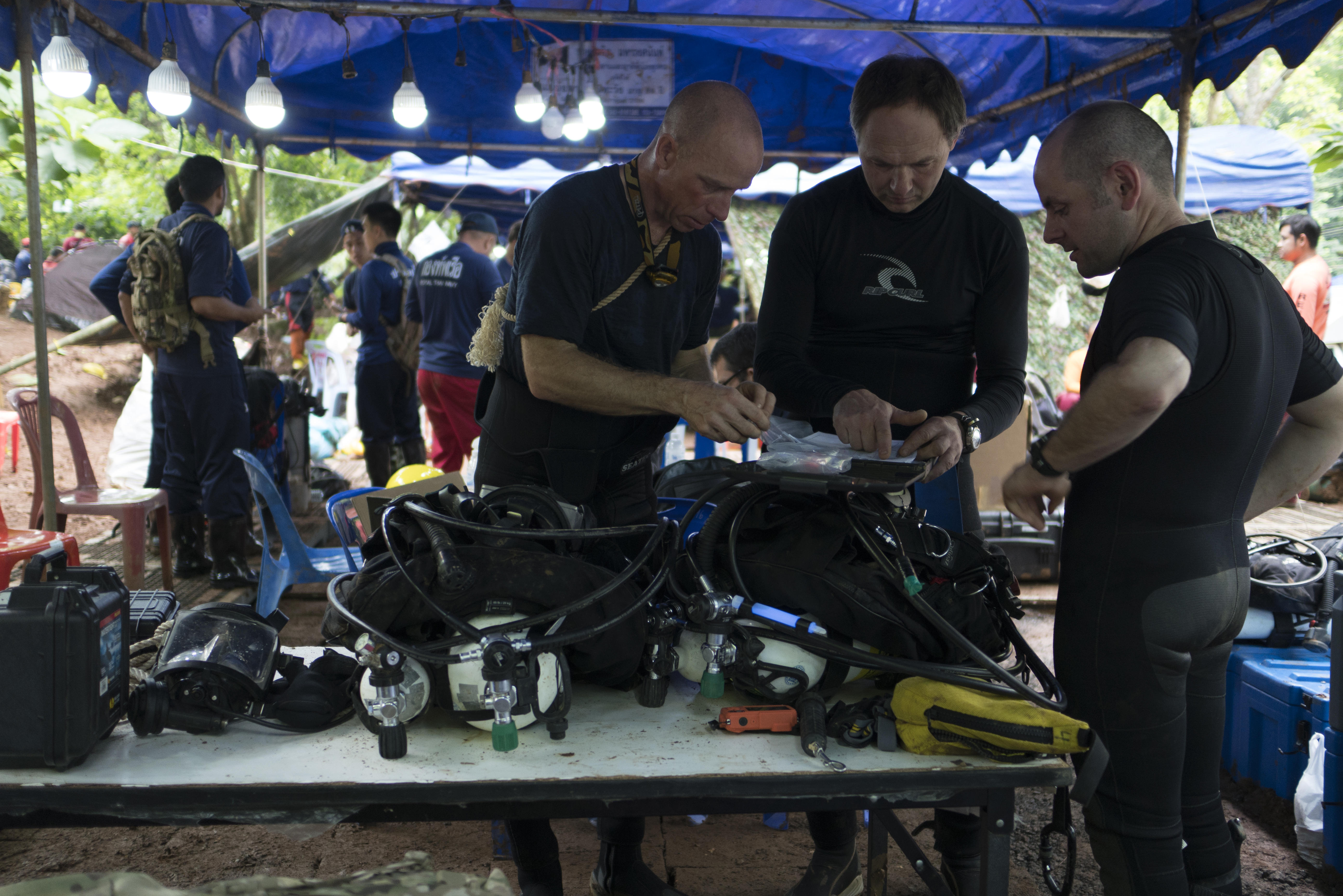 Cave rescue divers prepare dive equipment on 2 July 2018 at Chiang Rai, Thailand. (U.S. Air Force photo by Capt. Jessica Tait)